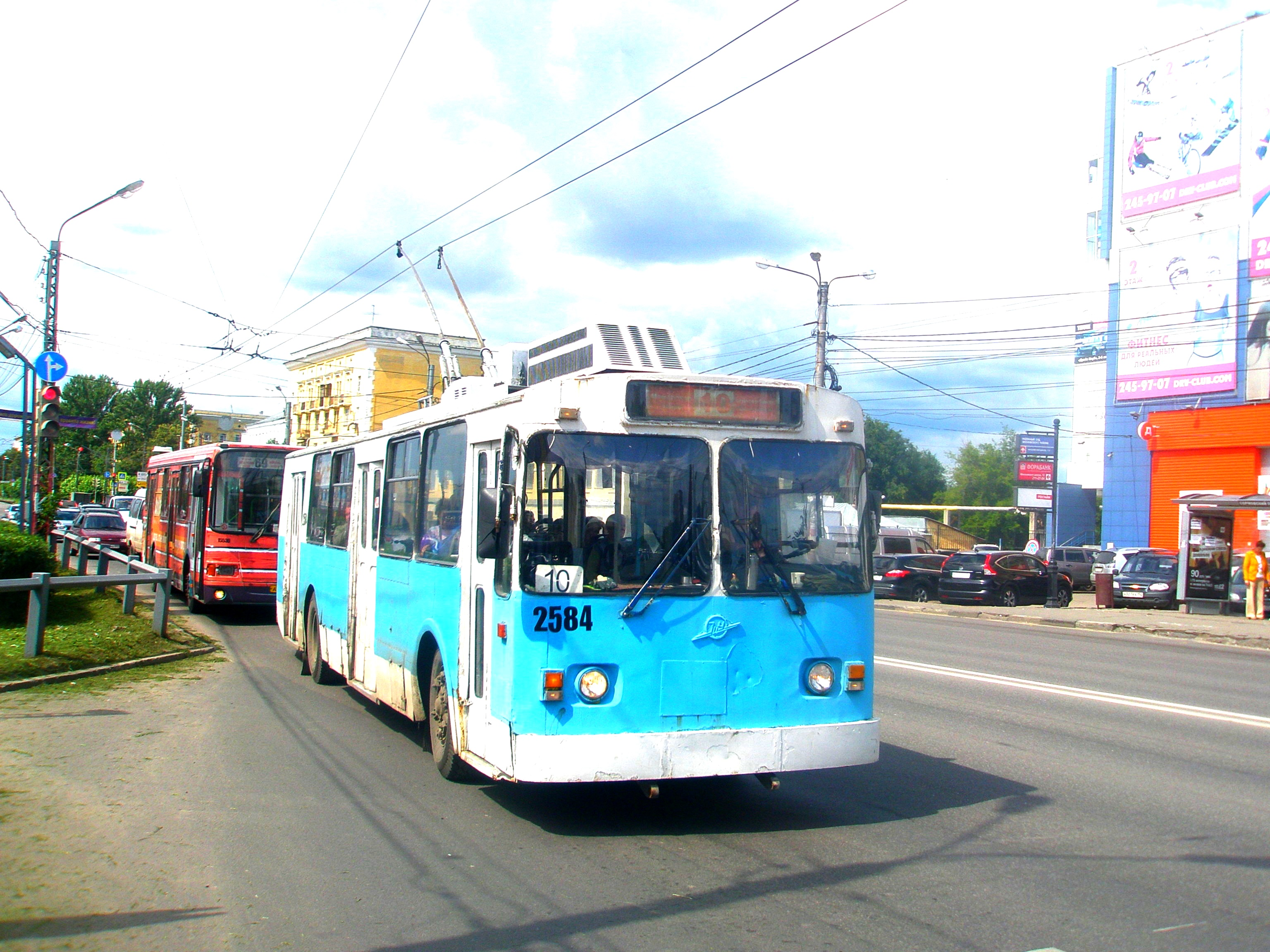 Trolleybus number 2584 in Nizhny Novgorod